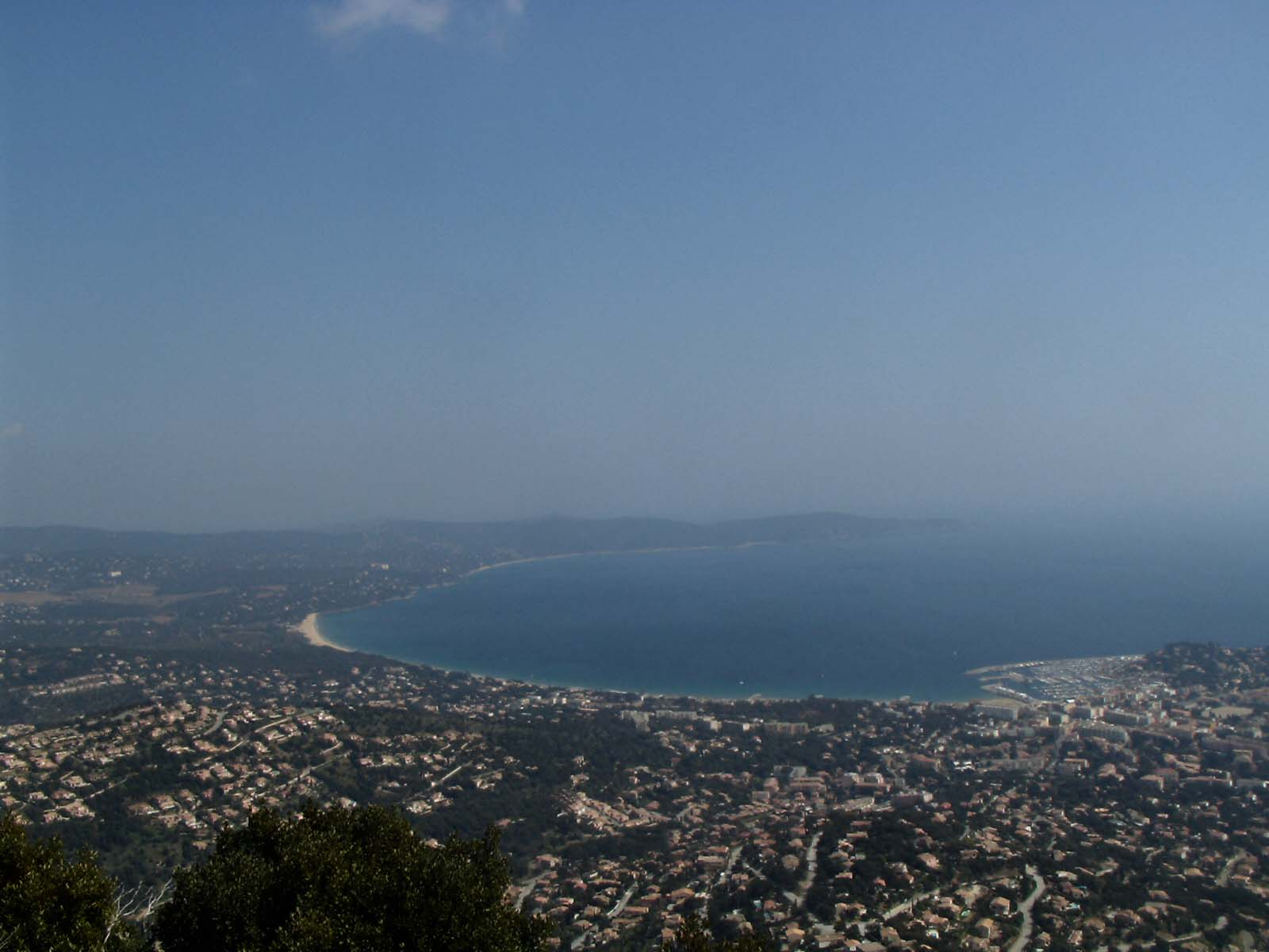 baie de cavalaire